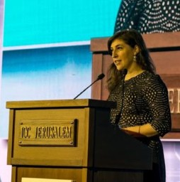 Keynote Adress by Mayim Bialik